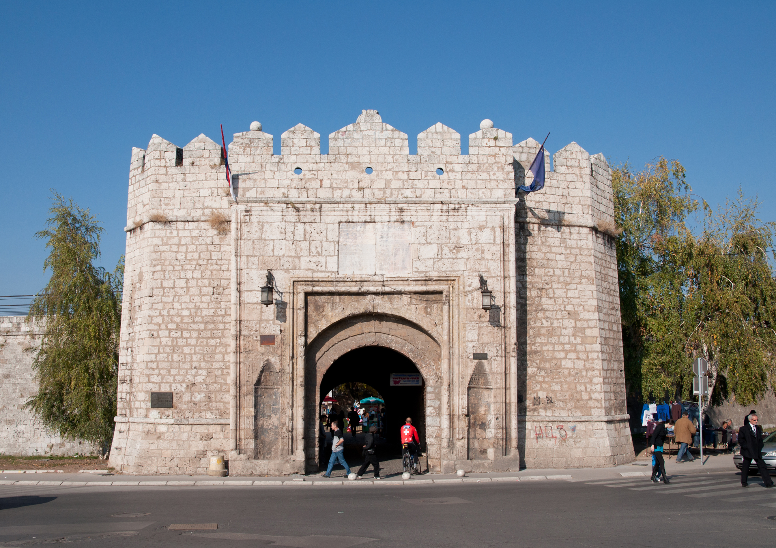 The main gate of the Niš Fortress situated along the Nišava river in the city of Niš, Serbia.